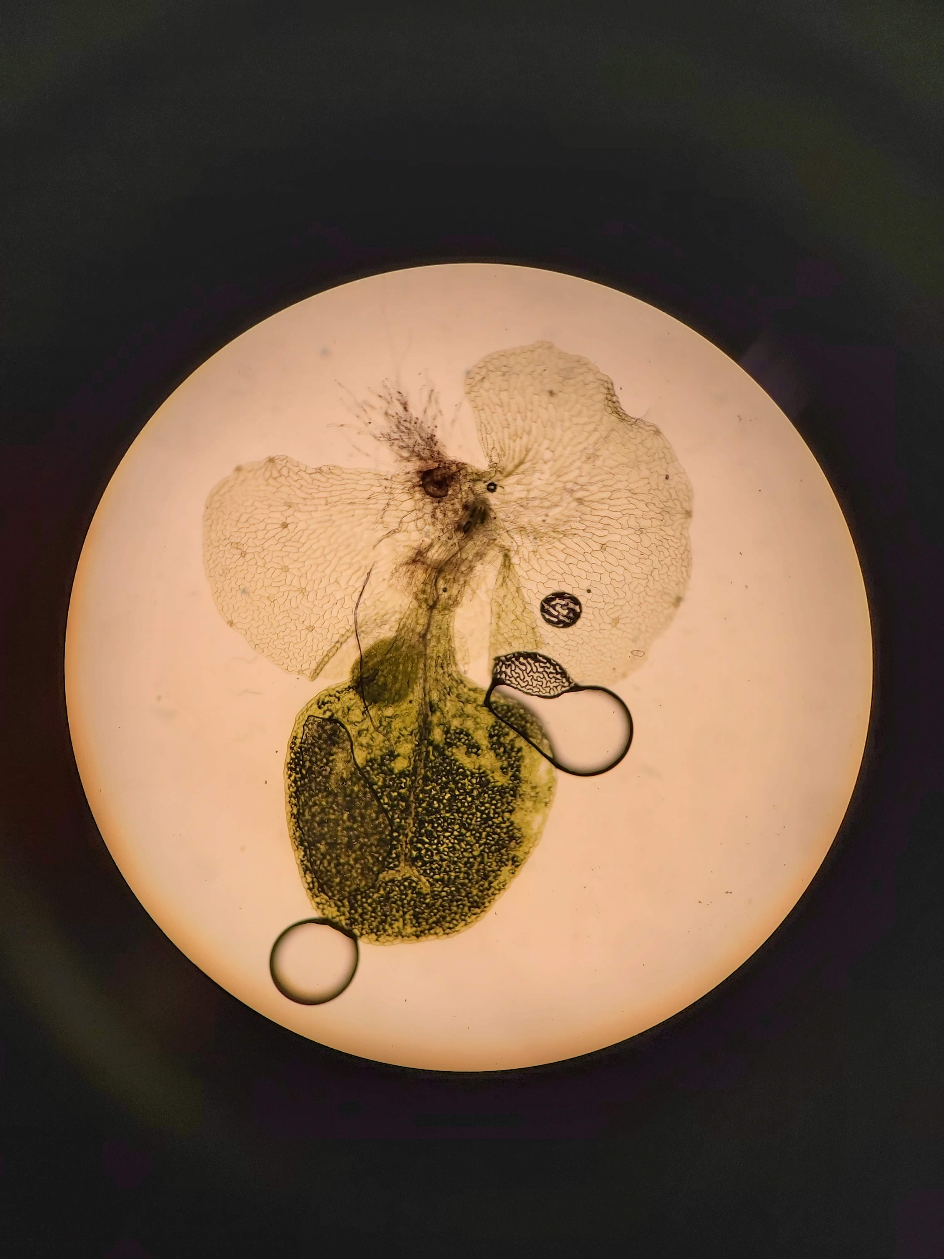 Development of Ceratopteris richardii "C-Fern" 3 weeks following the inoculation of spores on agar media.